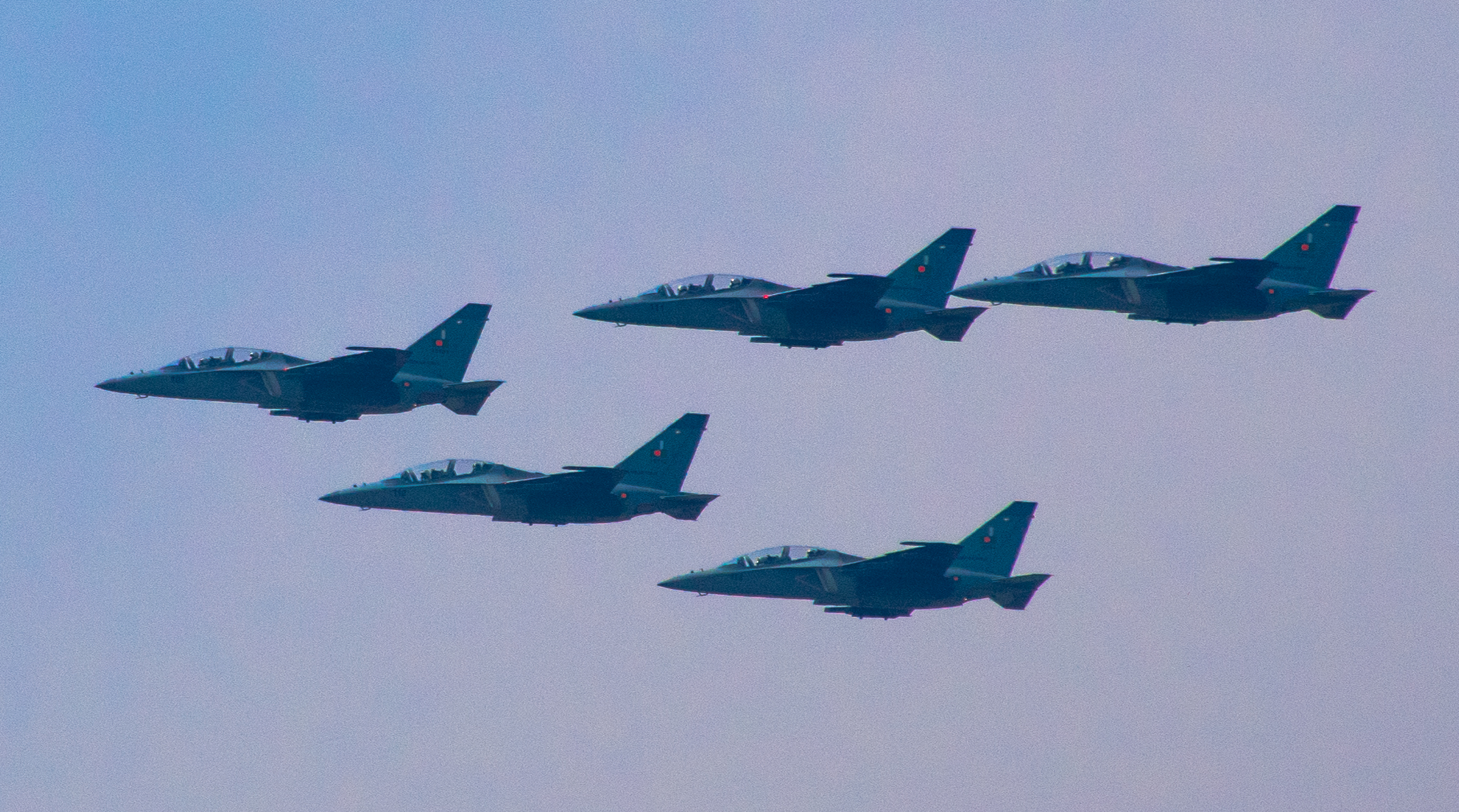 Yakovlev Yak-130 during Bangladesh Air Force Victory Day Flypast and Aerobatics Show 2016.